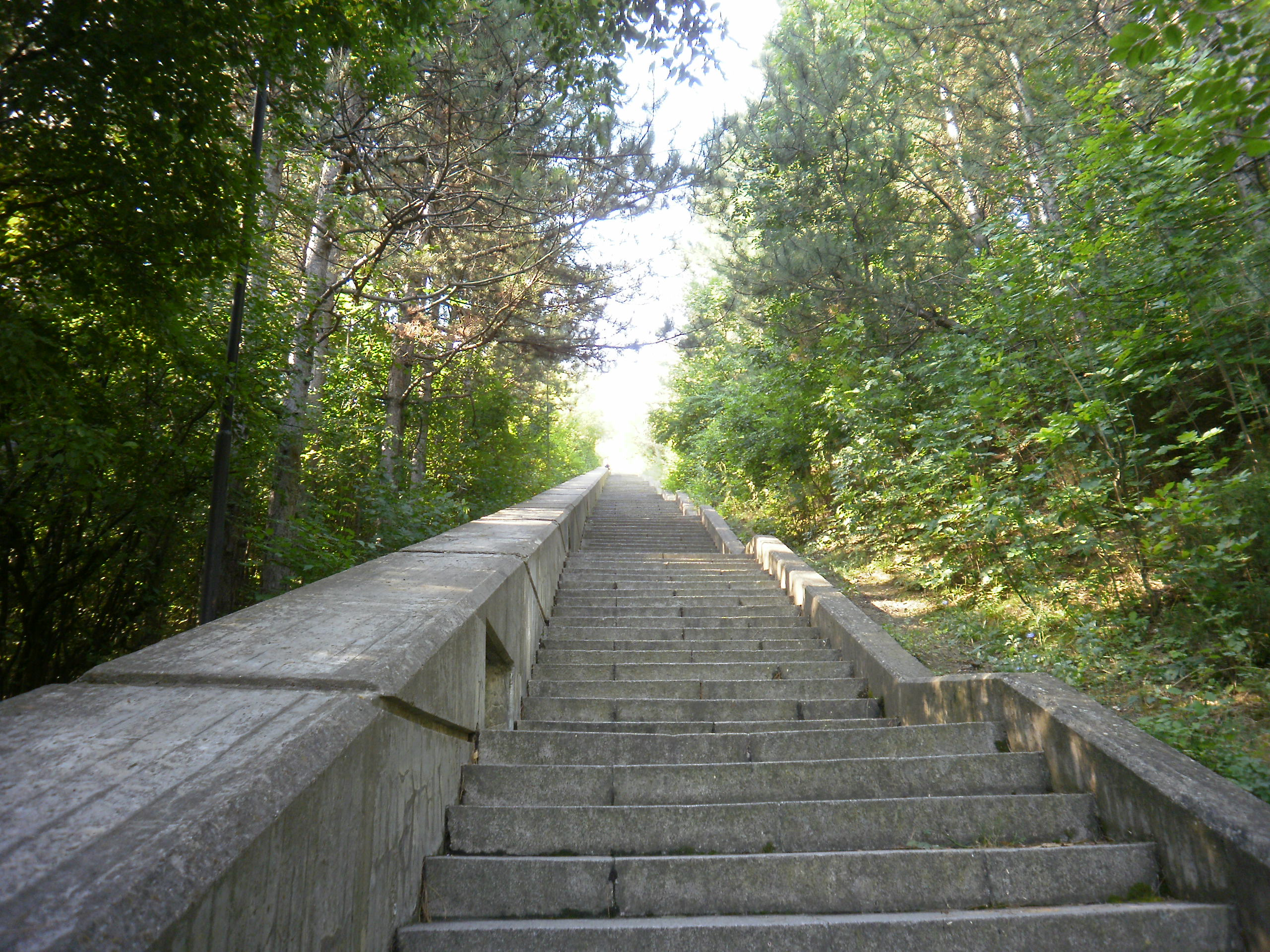 Shumen, Bulgaria